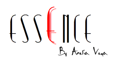 Logo tienda de amelia vega